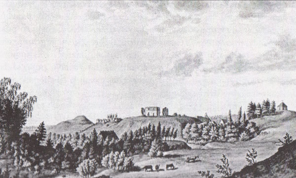 Tervete